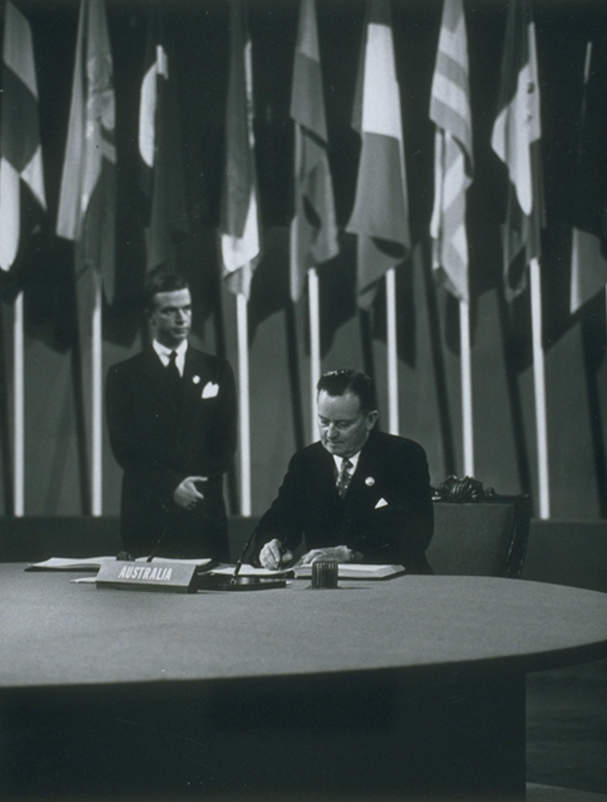 Frank Forde signing the UN Charter on behalf of Australia.